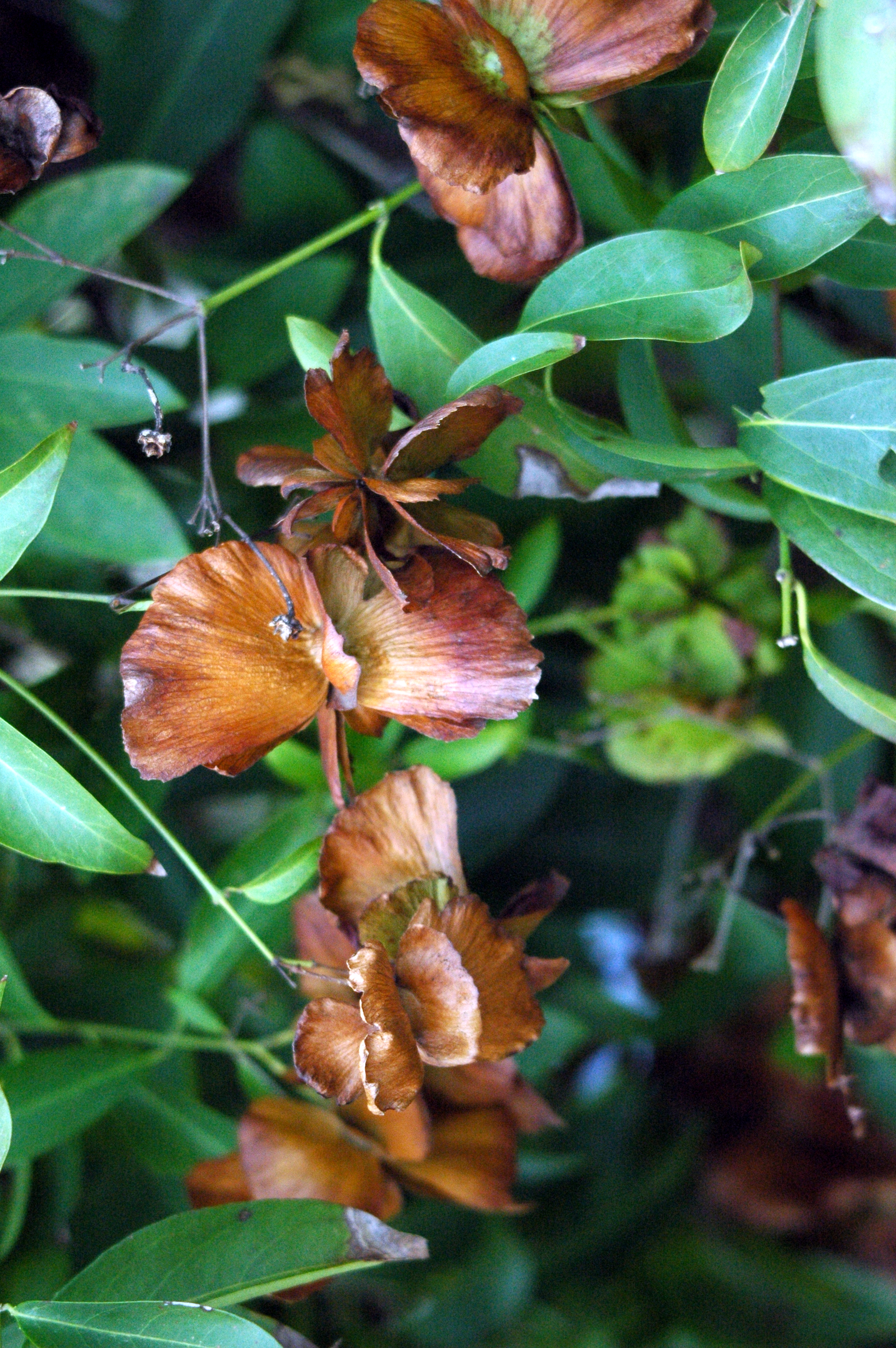 Callaeum macropterum in the Texas A&M University Horticultural Garden, College Station TX